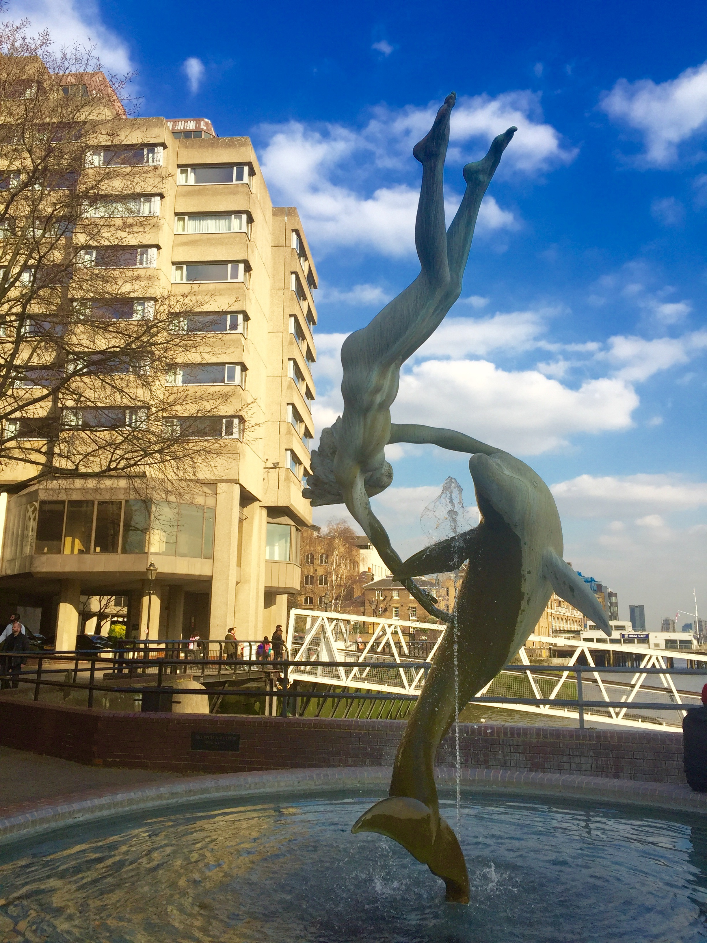 Sculpture in pond lit at night sometimes with fountain